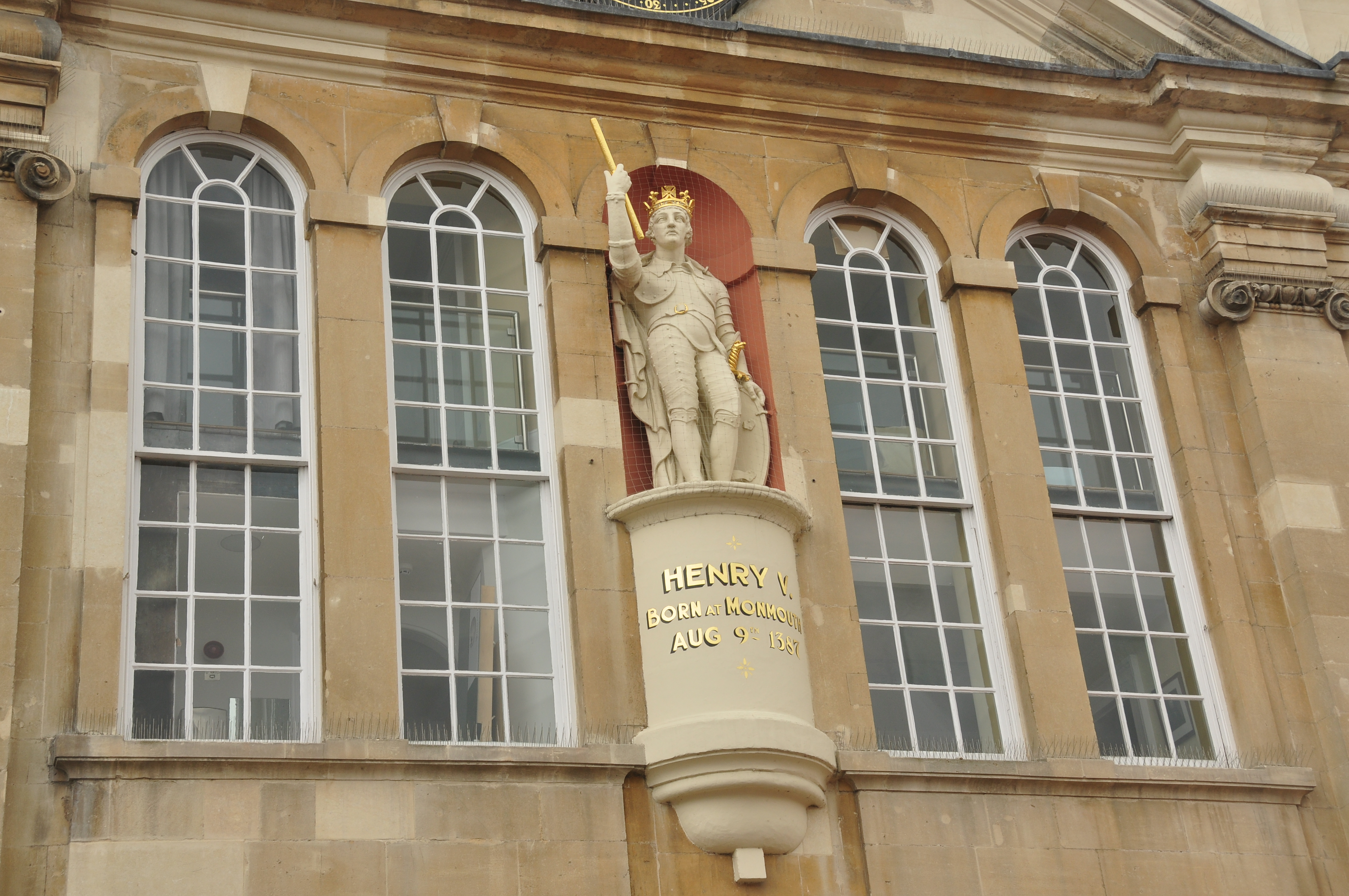 Monmouth Shire Hall